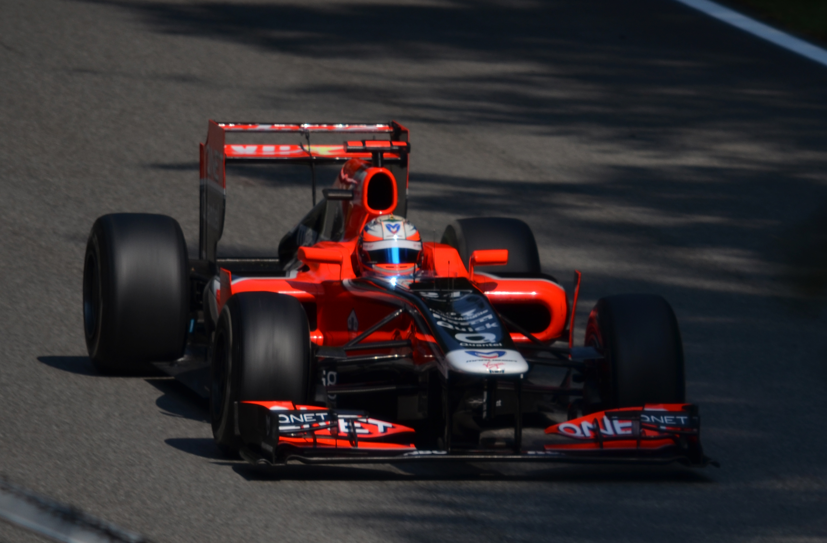 Timo Glock in the Marussia Virgin - Cosworth MVR-02 on the run down to the Ascari chicane at Monza during second practice for the 2011 Italian Grand Prix.